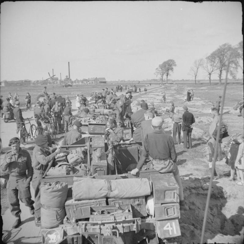 The British Army in North-west Europe 1944-45 Universal Carriers of 49th (West Riding) Division's Reconnaissance Regiment are welcomed by Dutch civilians on the outskirts of Kampen, 19 April 1945.